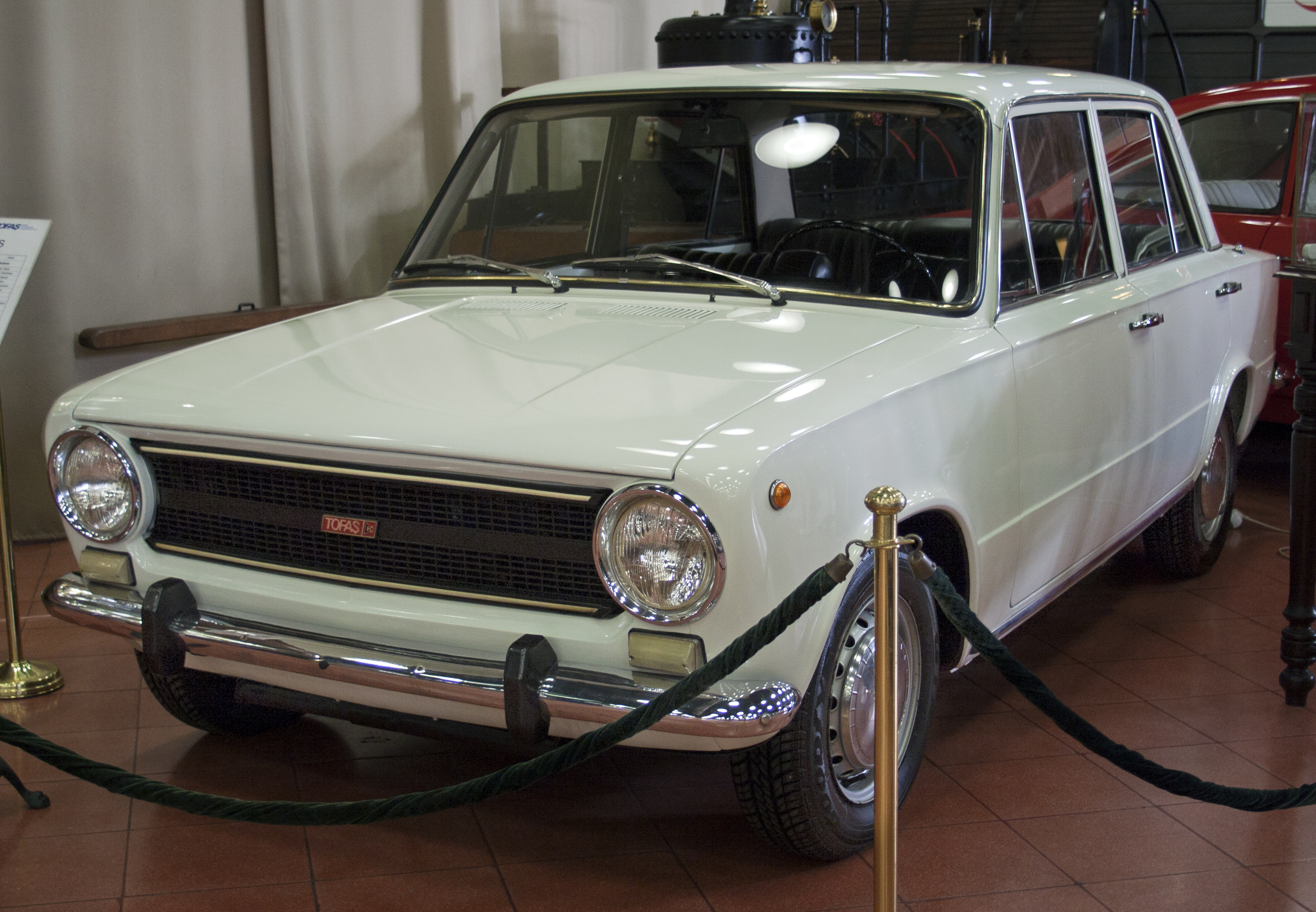 1976 Tofaş Murat 124, on display in the Rahmi M. Koç Museum of Transportation. The 124, later renamed the Serçe ("sparrow"), was built by Tofaş from 1971 until 1994.